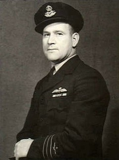 London, England. C. 1944-07. Portrait of 402933 Wing Commander W. L. Brill DSO DFC of Grong Grong, NSW, Commanding Officer of No. 467 (Lancaster) Squadron RAAF at RAAF Overseas HQ.